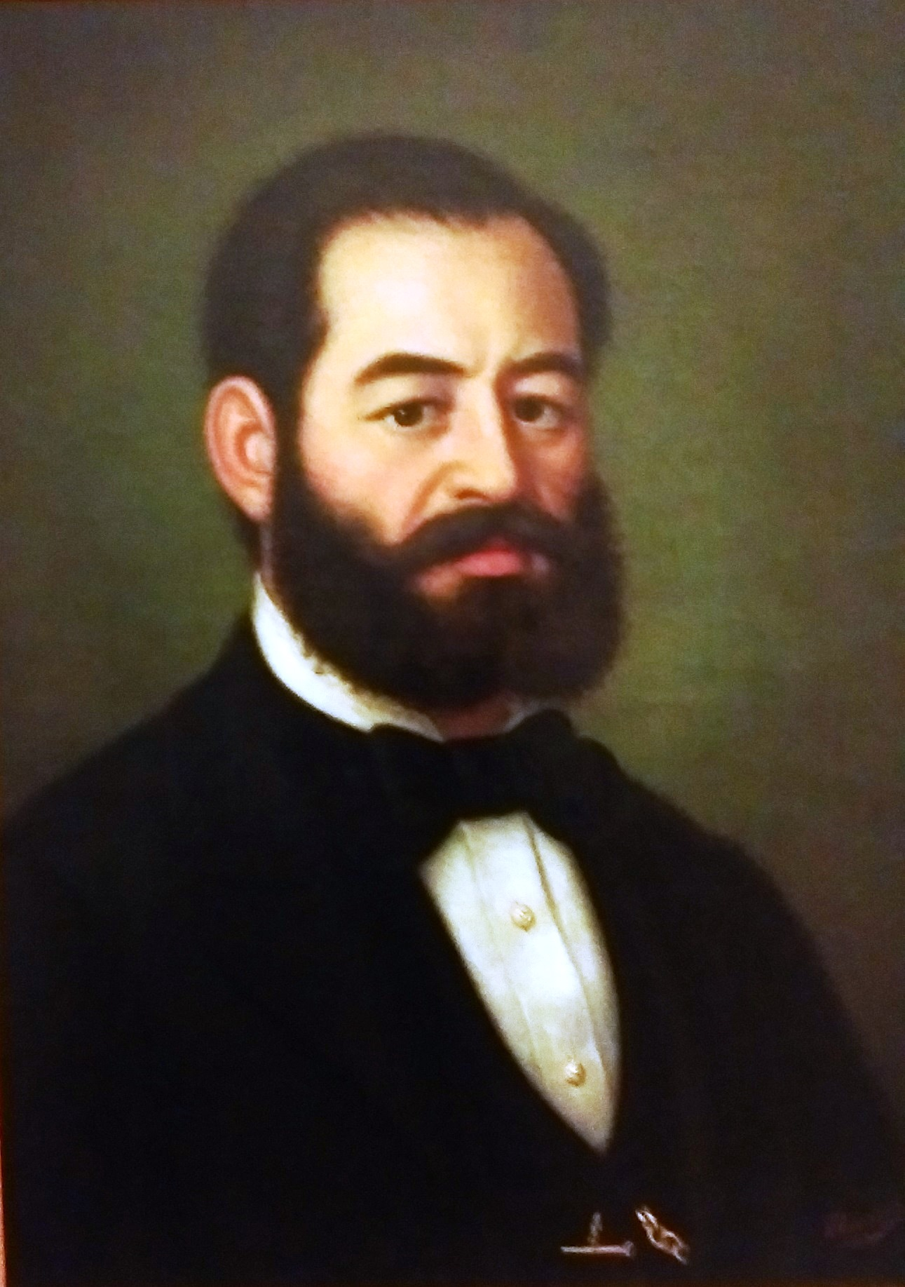 An 1880 portrait of the bulgarian medic Dimitar Pavlovich by his brother Nikolai Pavlovich